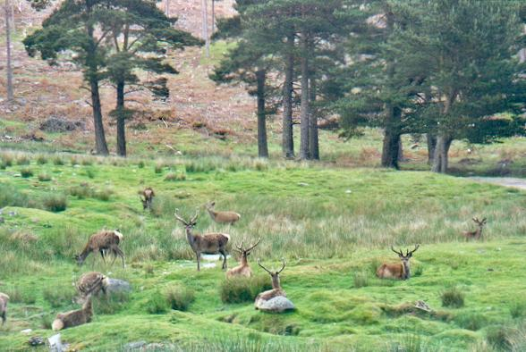 Deer in Pinewoods nr Invercauld House. These red deer were surprisingly low down for the time of year and seemed unconcerned at our presence.